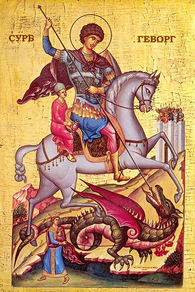 Sourb Gevorg - Saint George